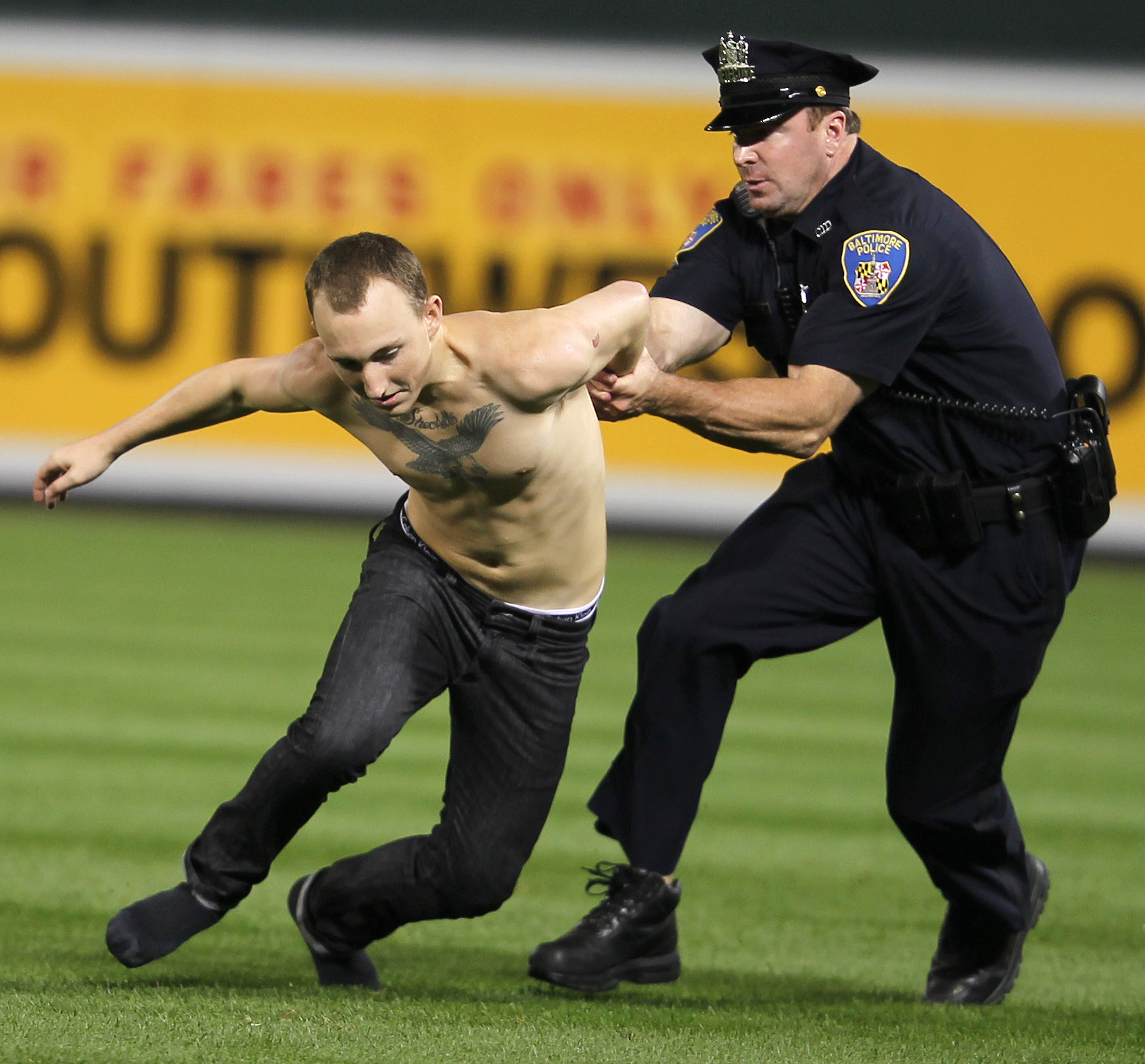 A Baltimore Police Officer arrests a shirtless man on the field at a Red Sox–Orioles game in Baltimore (27 September 2011).